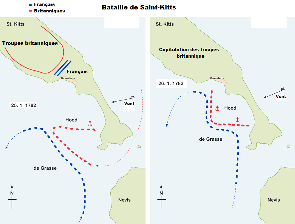 From: Map of ship positions and movements during the battle of Saint-Kitts January 25-26, 1782 Translated in french